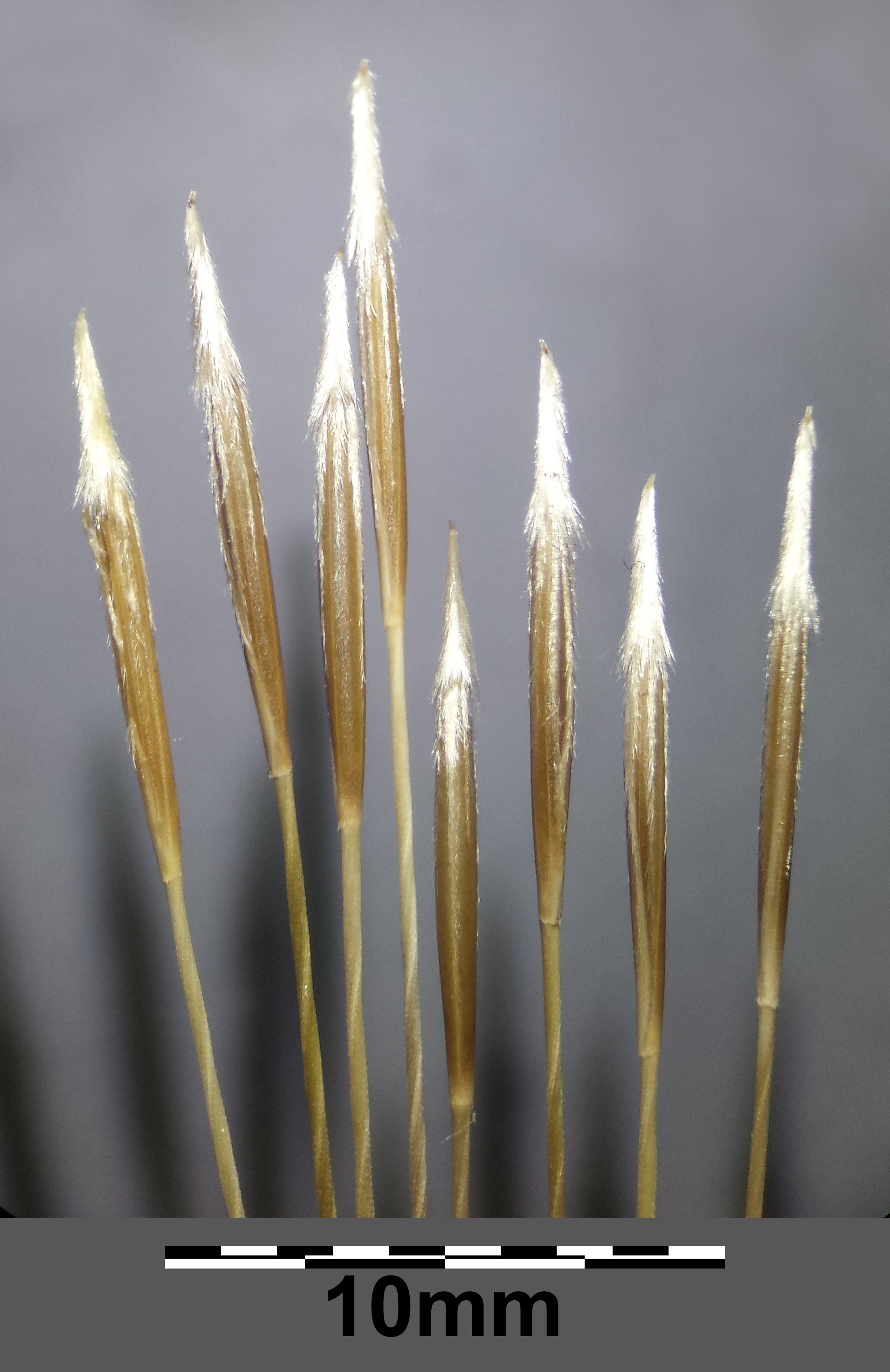 Lemmata Taxonym: Stipa capillata ss Fischer et al. EfÖLS 2008 ISBN 978-3-85474-187-9 Location: Loess hill to the west of Großebersdorf, district Mistelbach, Lower Austria - ca. 200 m a.s.l. Habitat: semi-dry grassland